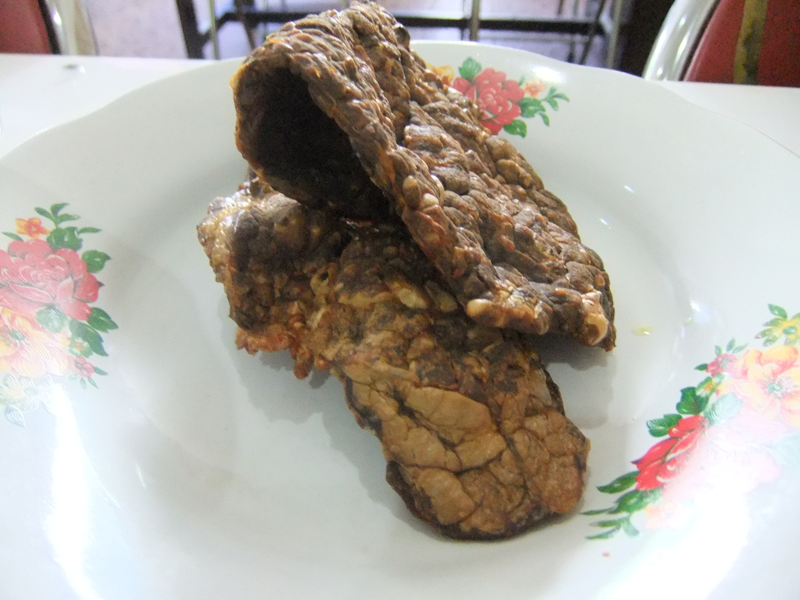 Fried cow's lung, Minangkabau Cuisine.